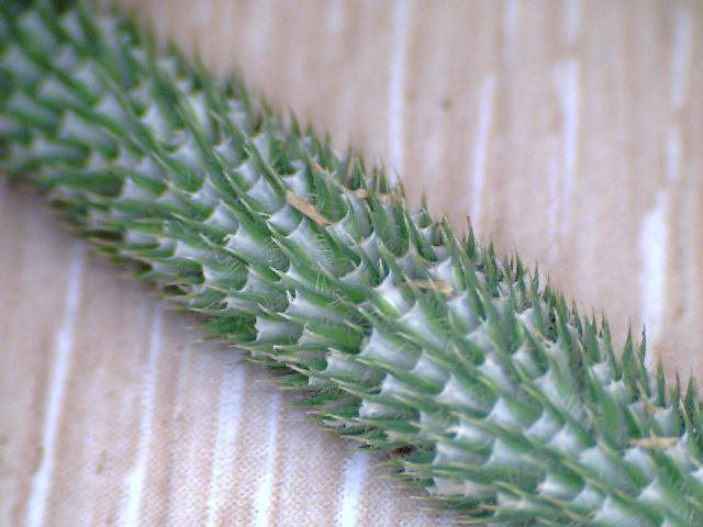 close up of the grass phleum pratense